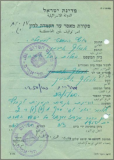 The first imprisonment order of Adolf Eichmann, by the Magistrate Court of Tel Aviv, 23 May 1960